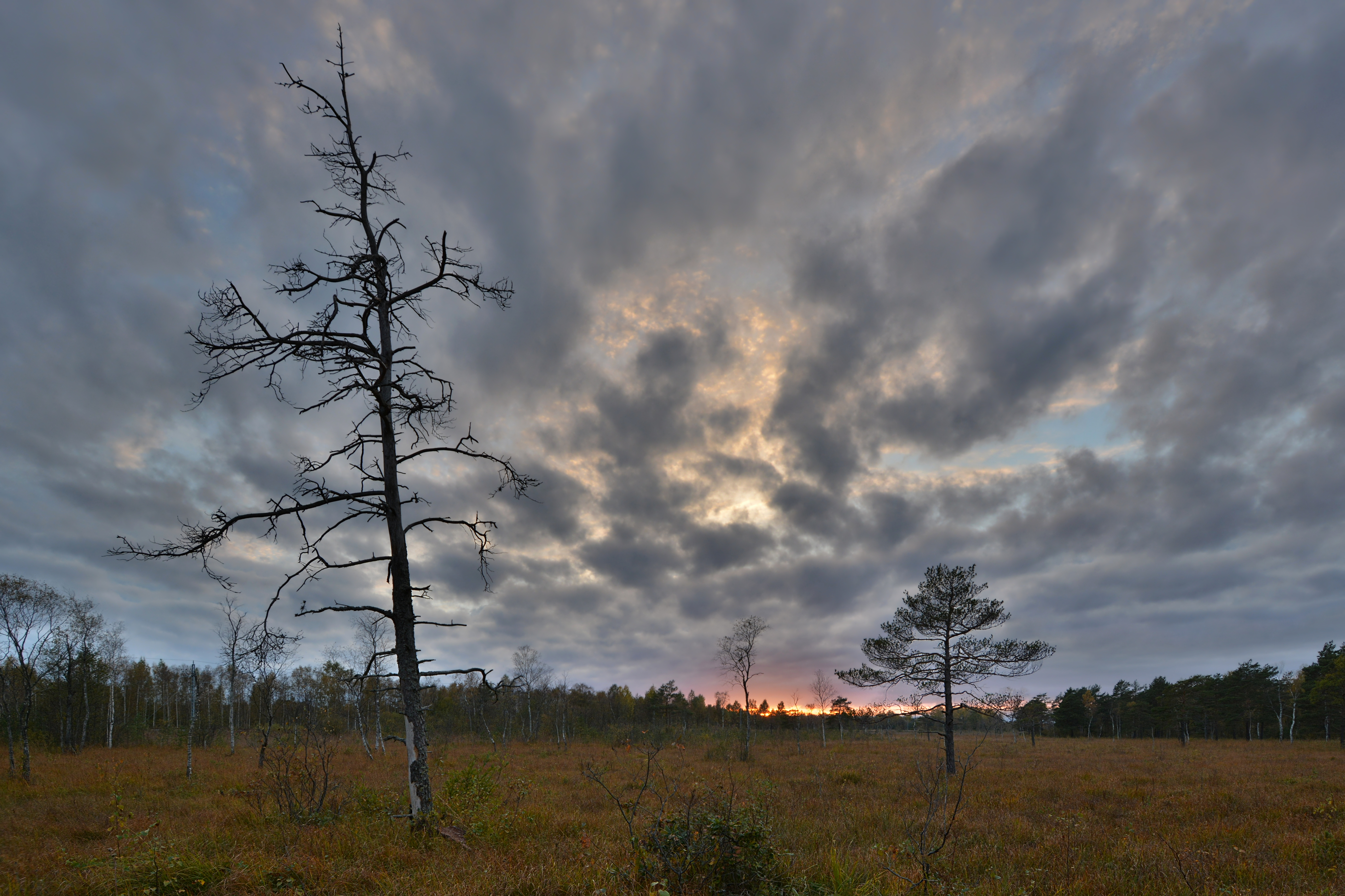 Niitvälja bog in october, Northwestern Estonia (in-camera HDR).